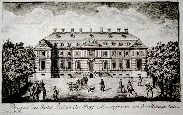 dd